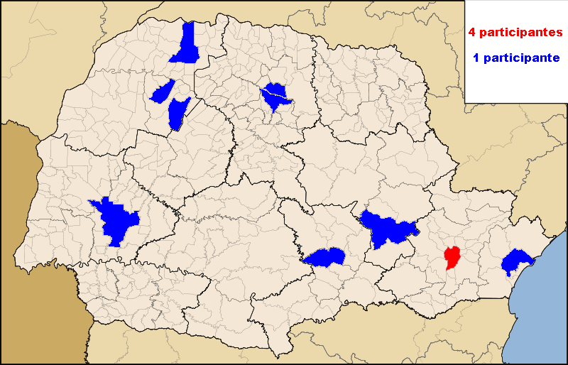 2011 Paraná State Football Championship - 2011 teams